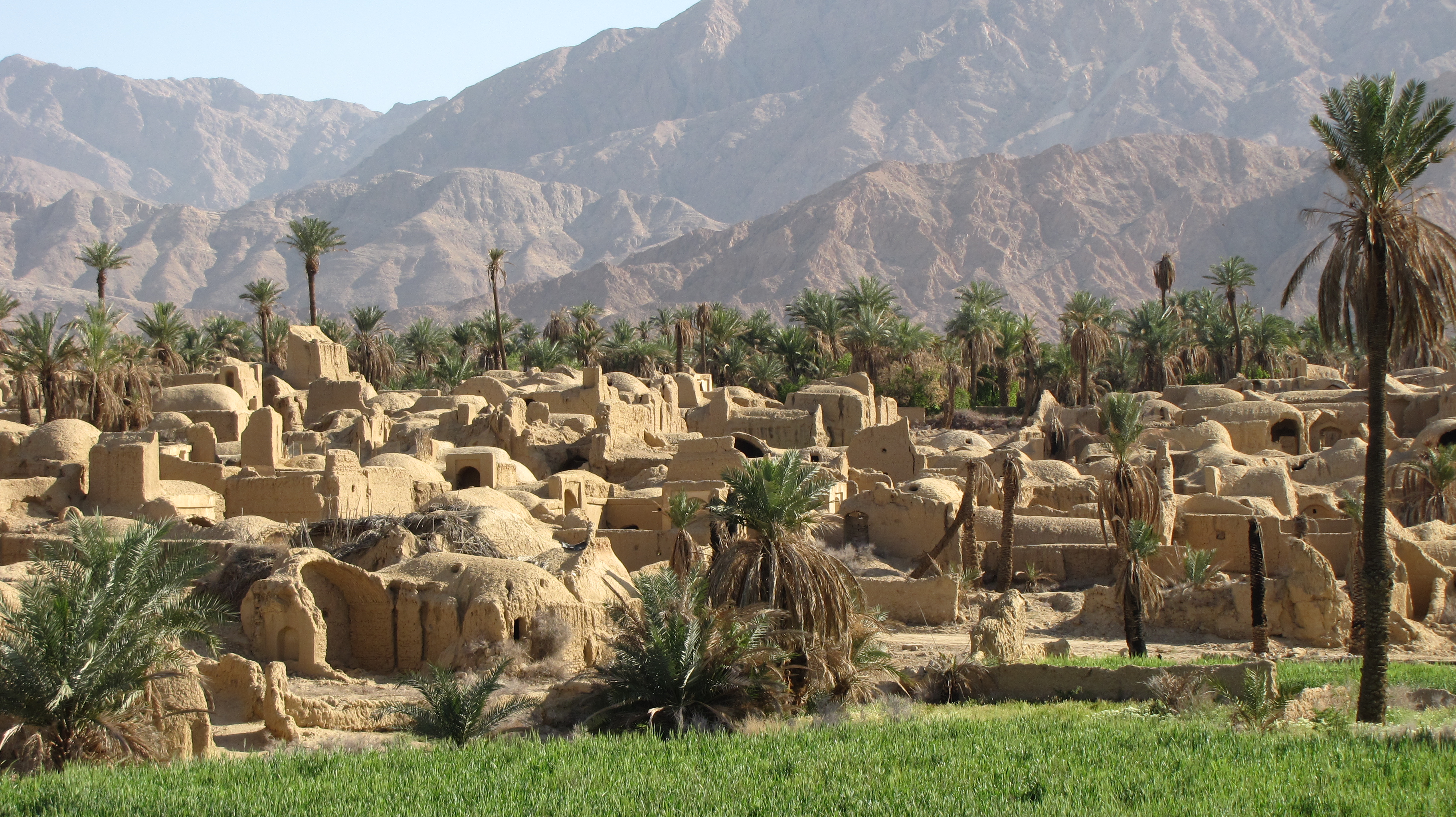 Isfahak Village, near Tabas - Iran